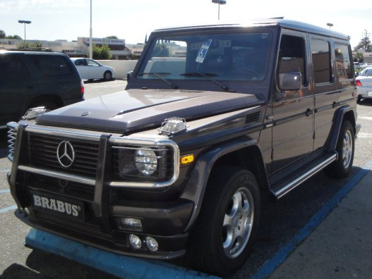 BRABUS G36